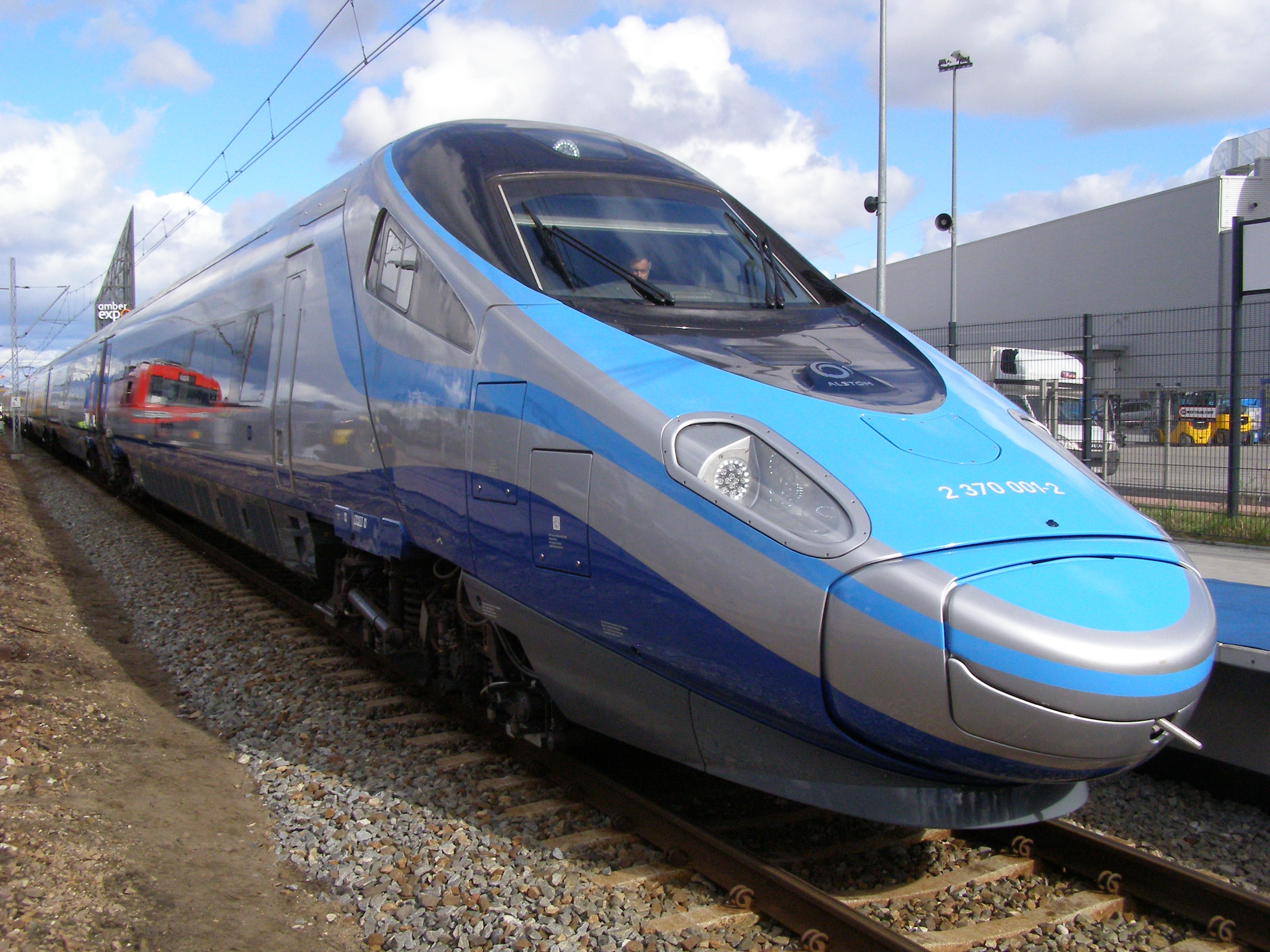 Gdańsk - International Railway Fair Trako 2013 - PKP Intercity ED250-001